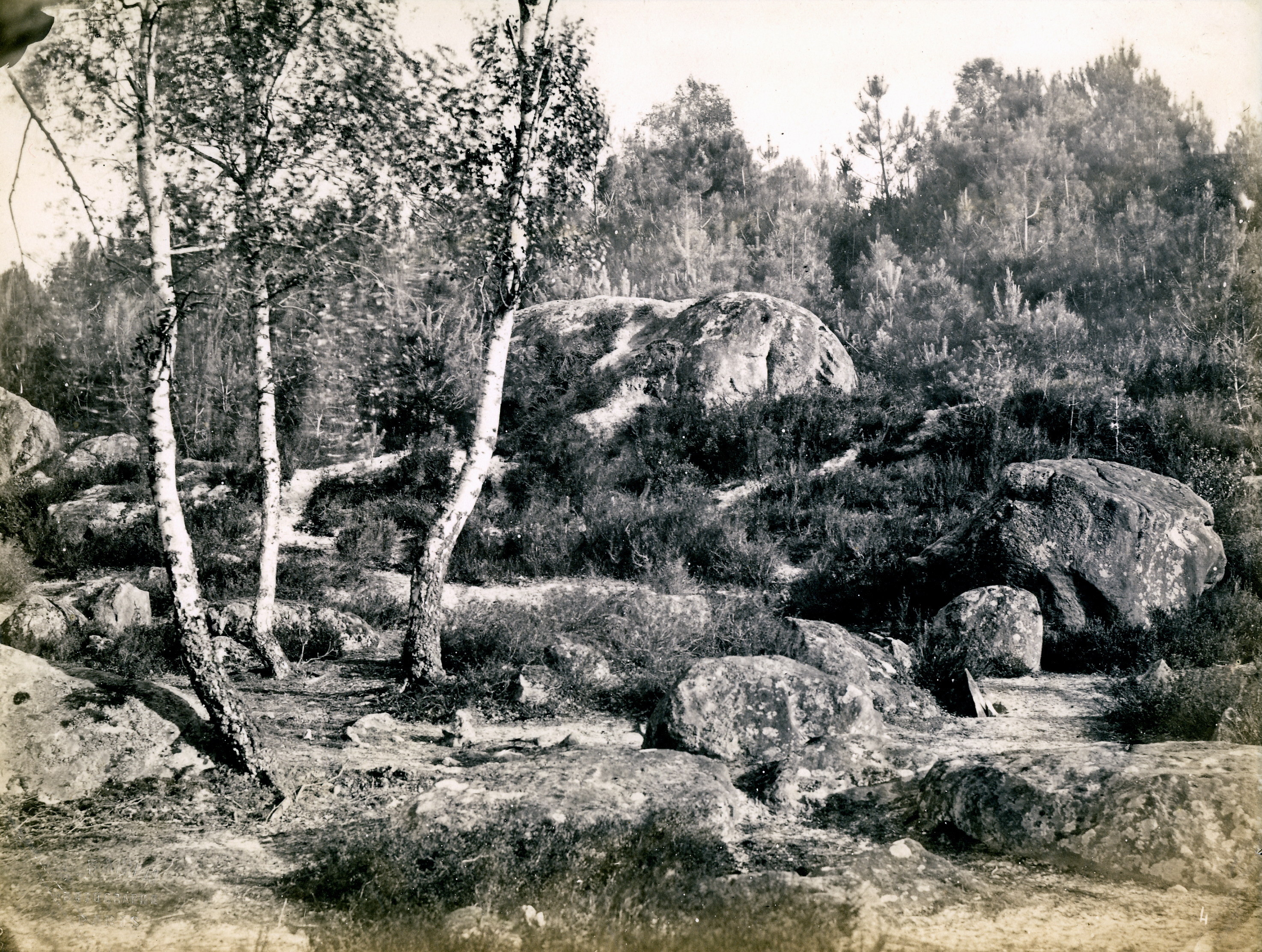 Landscape photography. Forest of Fontainebleau (France) in the mid-19th Century